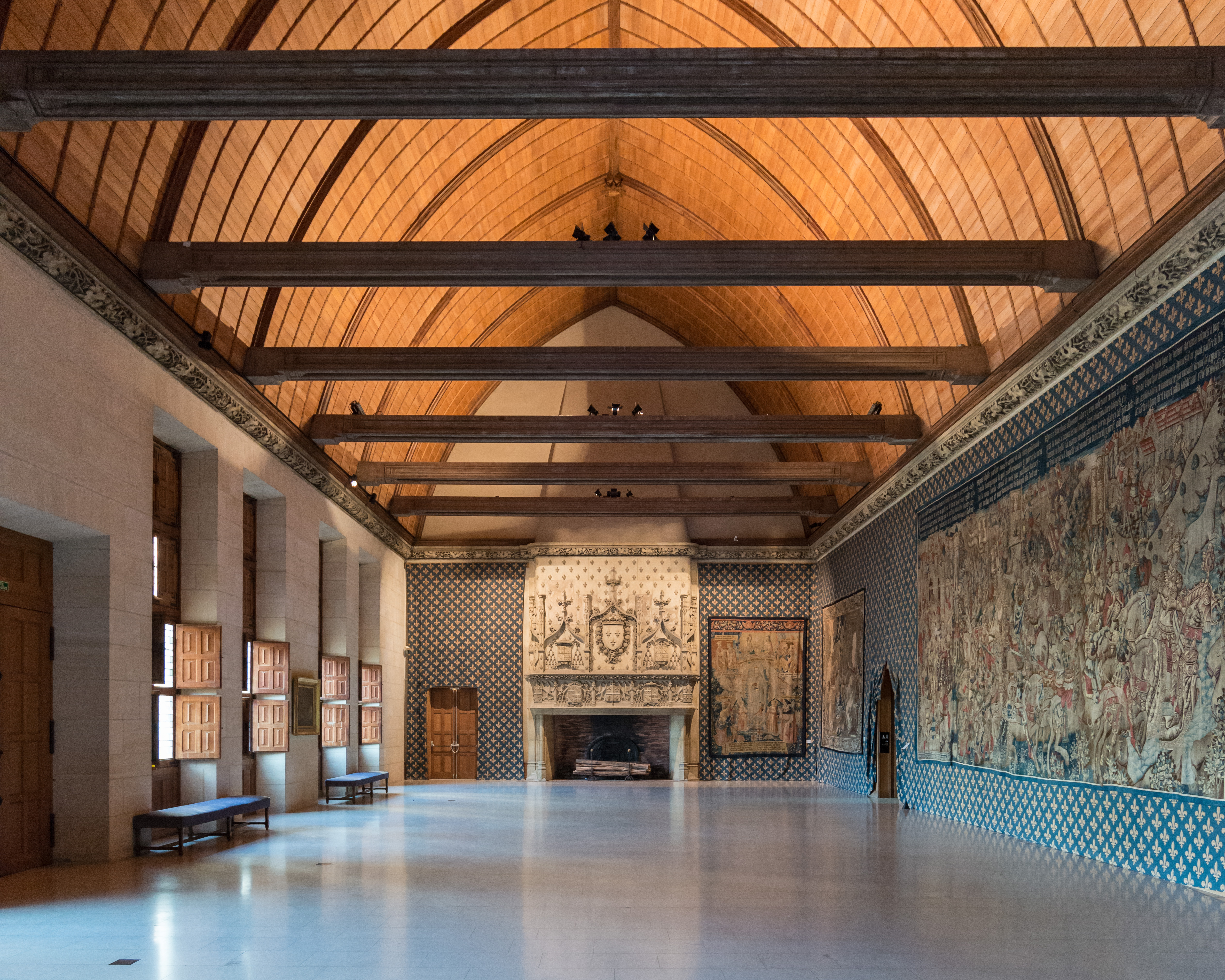 The Salle du Festin (feasting hall) of the Palace of Tau in Reims. The room was used for the banquet which followed the French Kings' coronations. The room was damaged during the bombardment of the city during WWI and only restored during the 1950s and 1960s